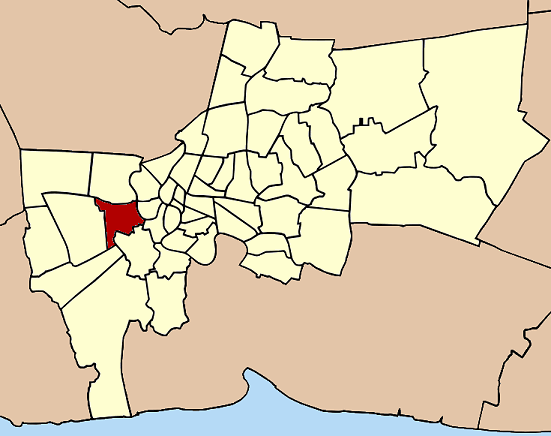 Map of Bangkok, Thailand, highlighting the district (khet) Phasi Charoen (ภาษีเจริญ)